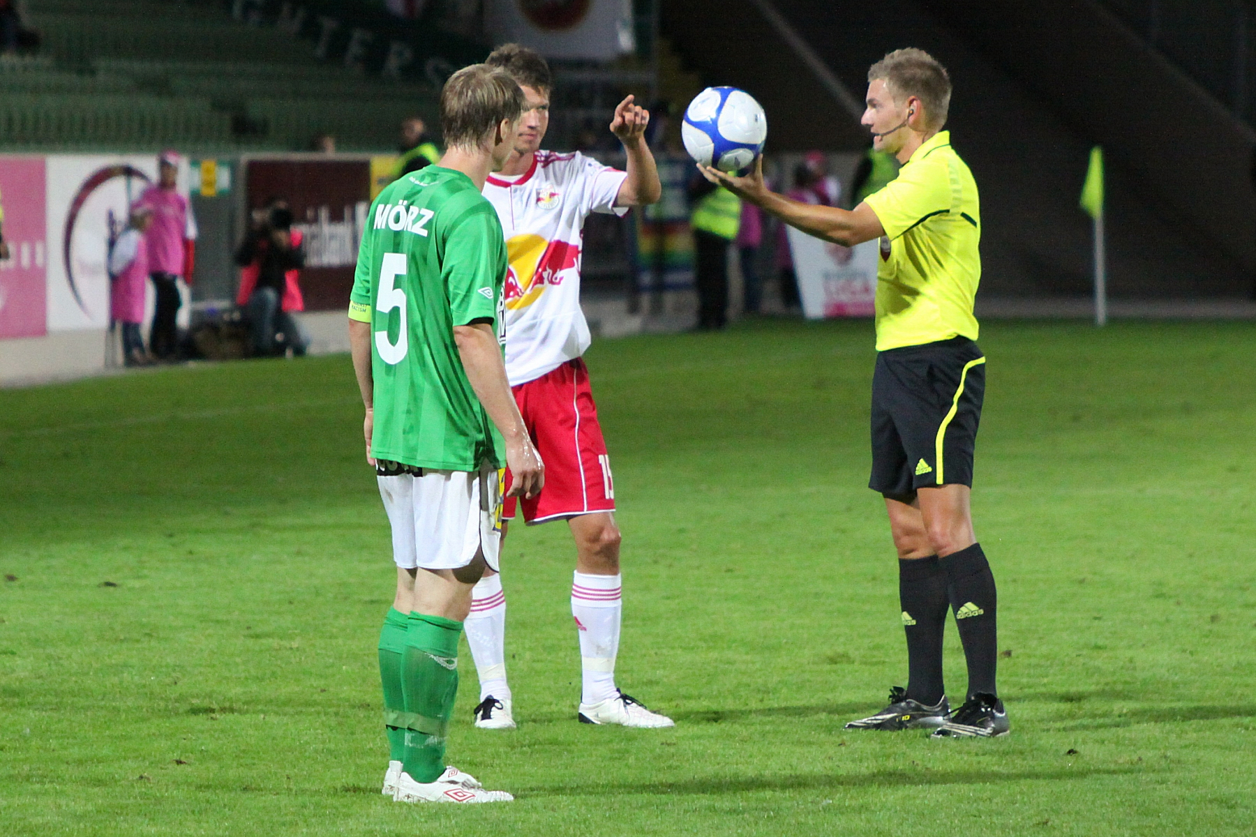 Manuel Schüttengruber, Referee of Austria by a Dropped-ball.